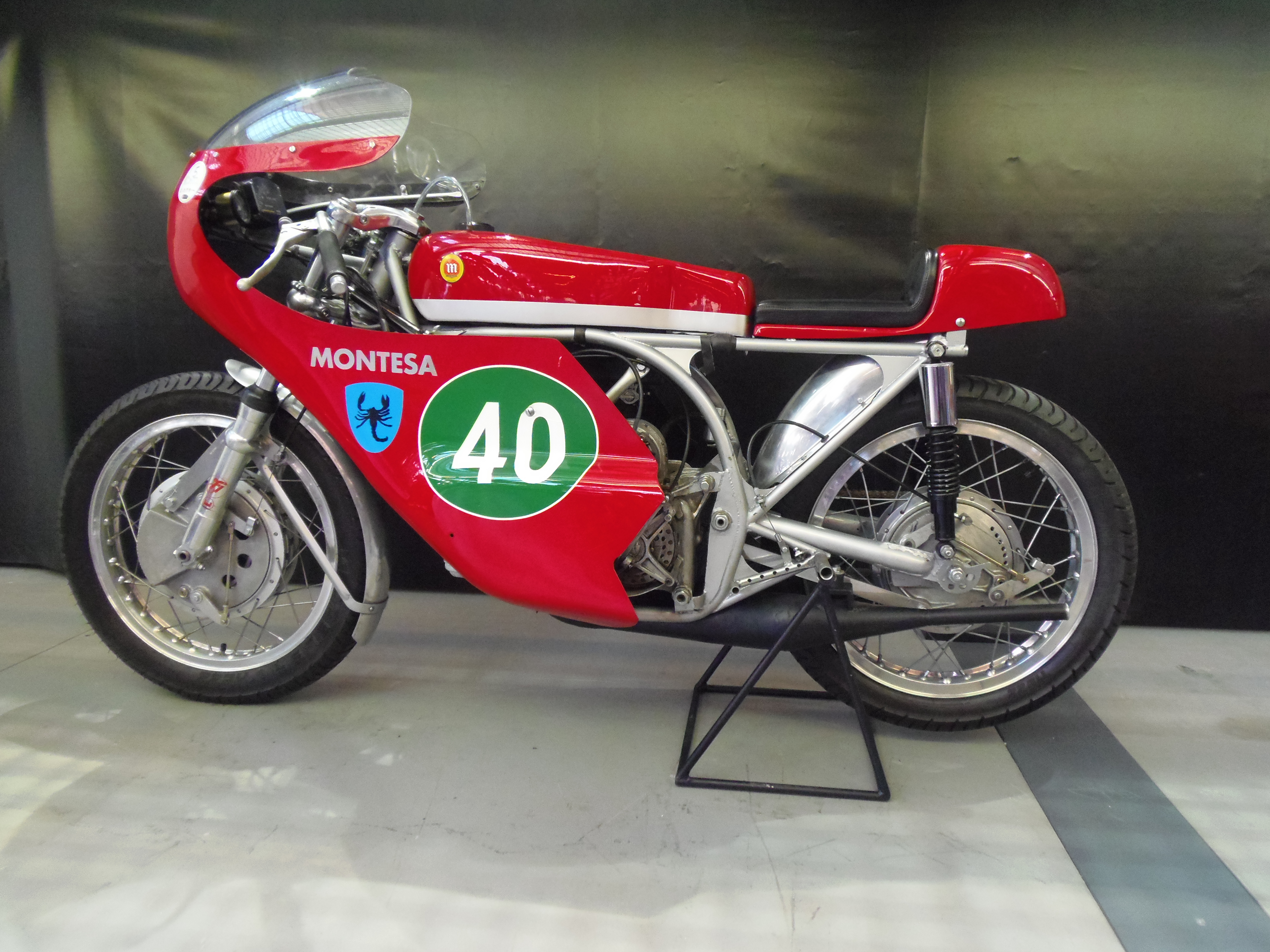 Montesa 250cc Two Cylinders. Developed with Francesco Villa in 1966, it fits a 2 horizontal cylinders engine with a double rotary valve and mixed air/water cooling. It was ridden by Villa, JM Busquets, Salvador Cañellas and Jaume Alguersuari